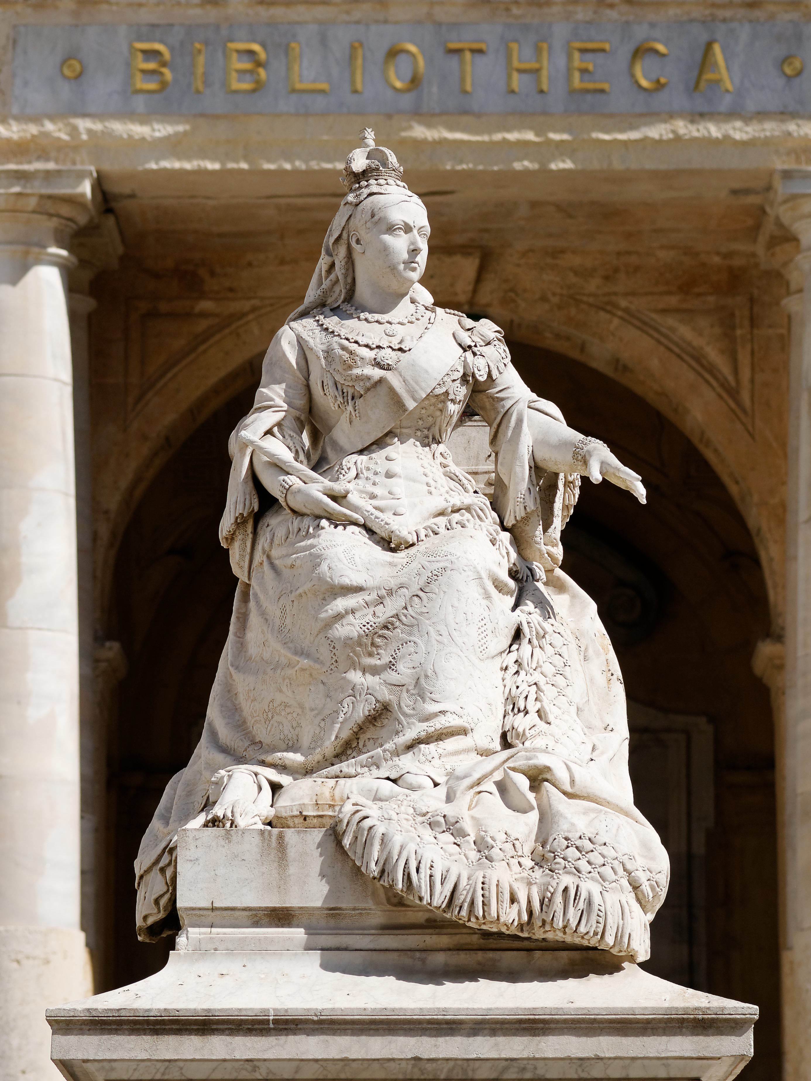 Marble statue of Queen Victoria by Giuseppe Valente (1891) on Misrah Ir-Repubblika, in front of the National library in Valletta, Malta.